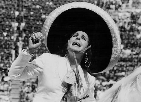 1974 photograph of Mexican singer and actress Flor Silvestre.